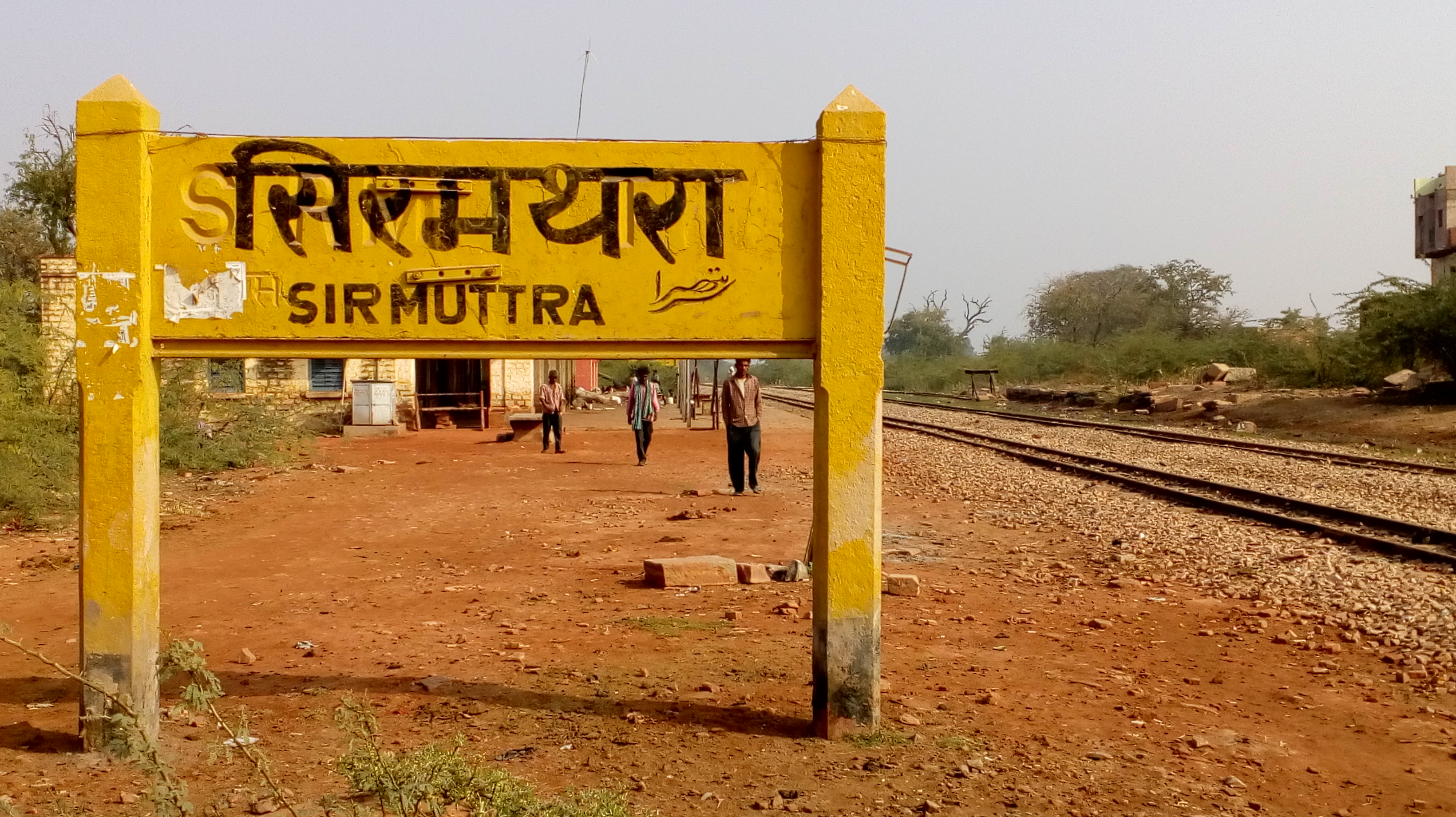 Sarmathura Railway Station